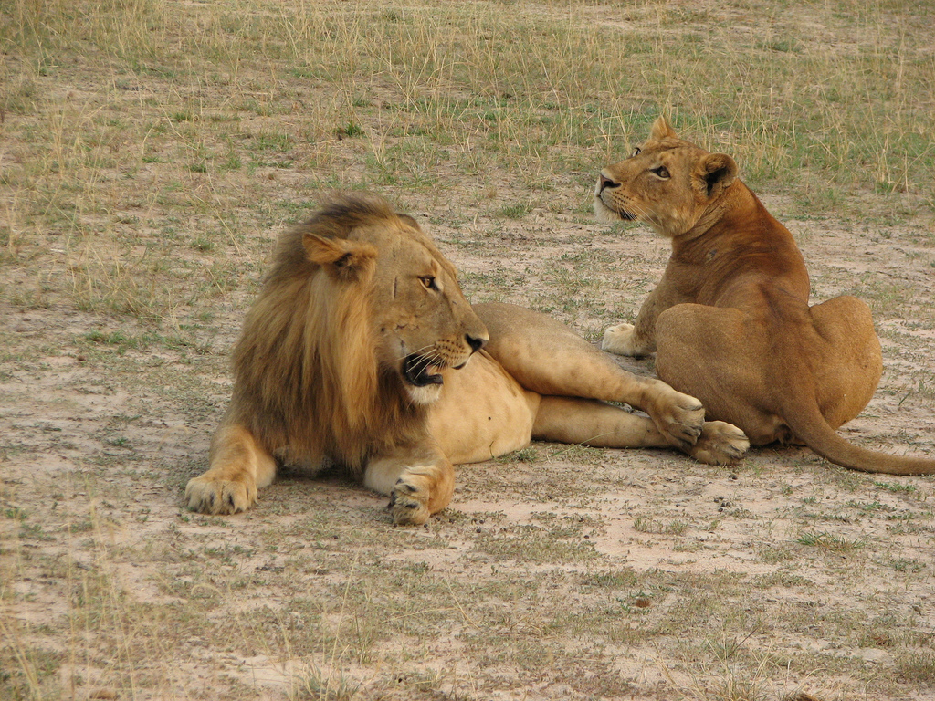 Lion male and female in Murchison Falls National Park, Uganda